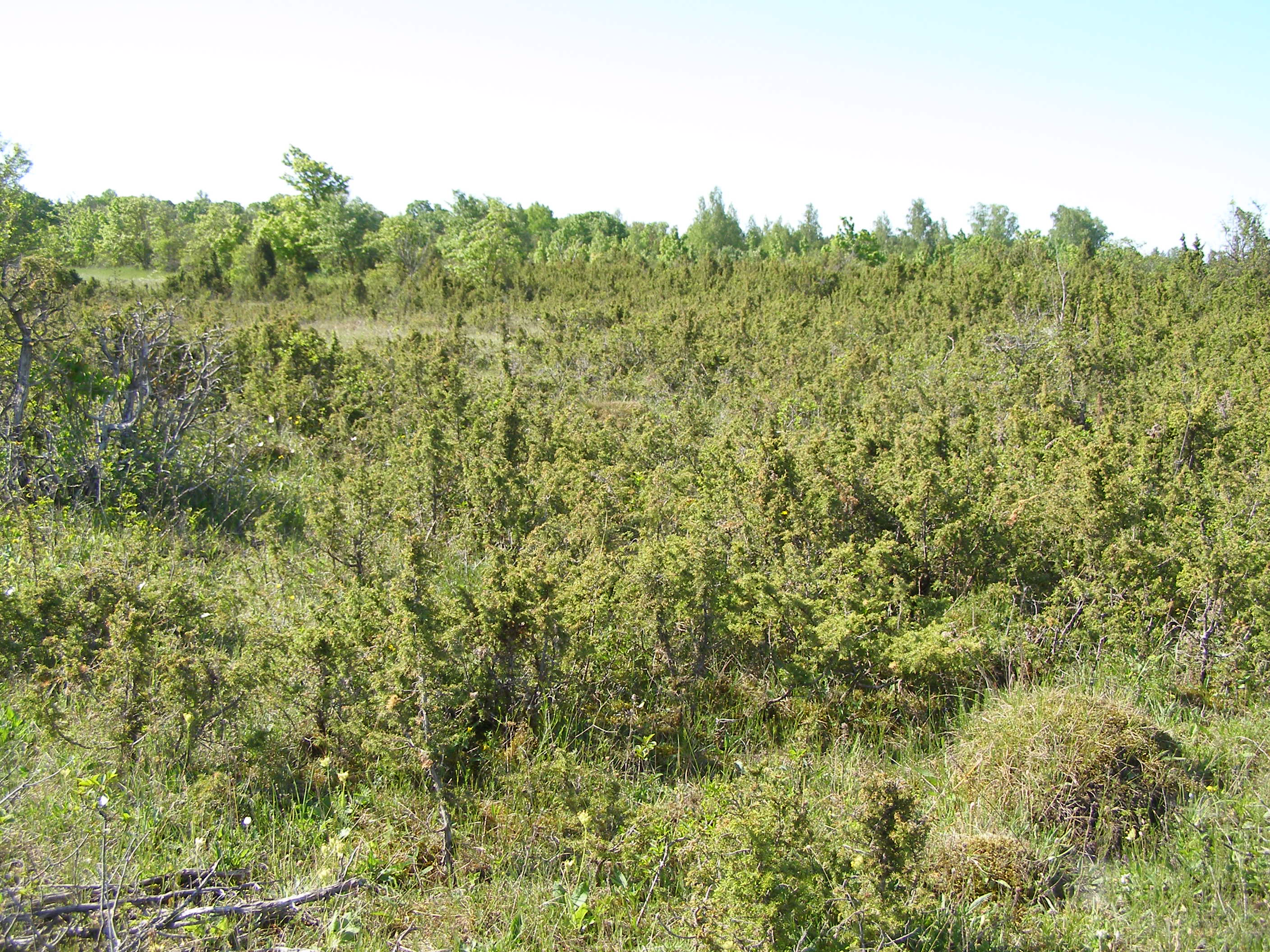 Overgrown alvar grassland in Muhu island, Estonia. Most of Estonian alvar grasslands have been overgrown during past 50 years